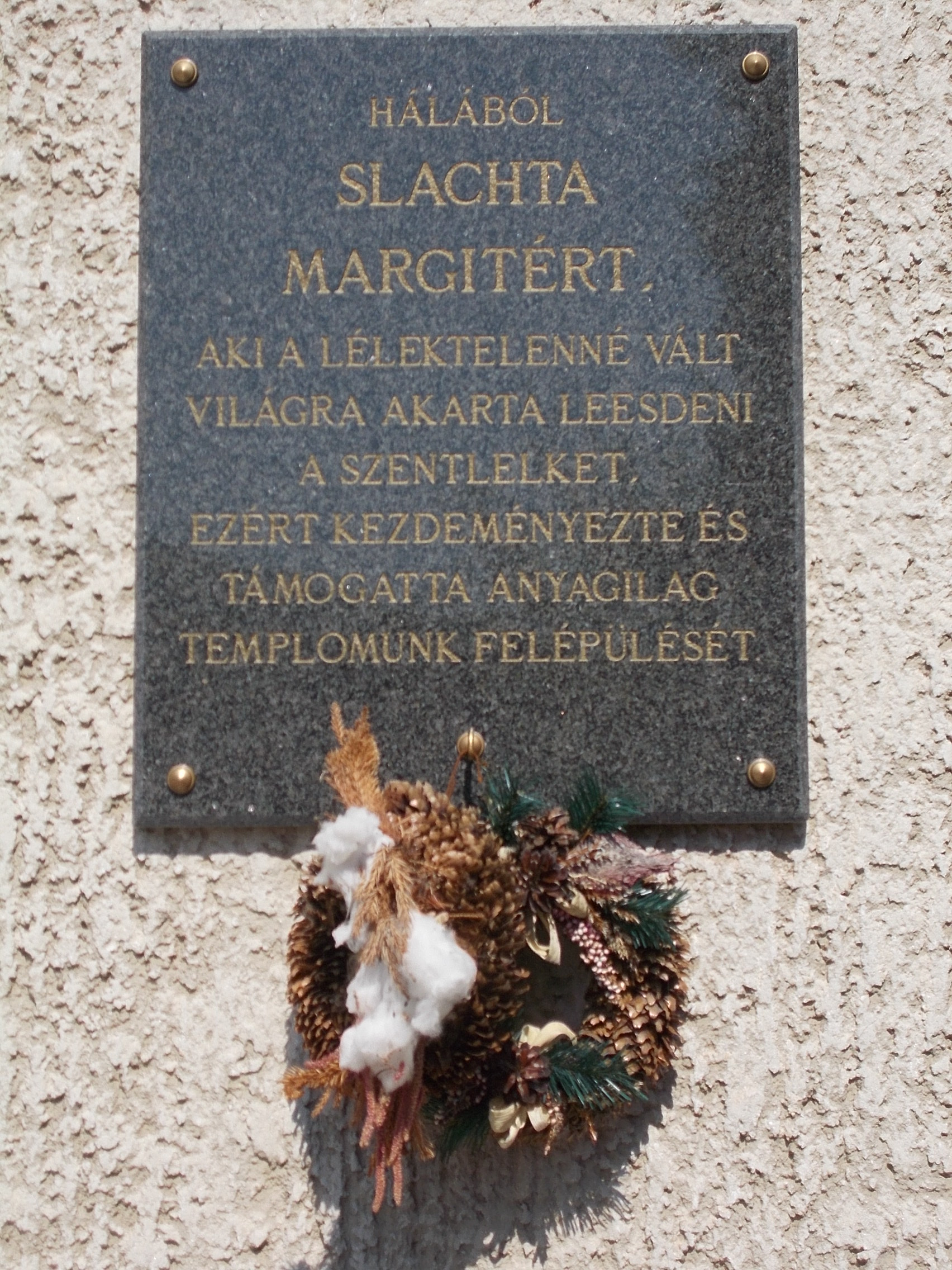 Pesthidegkút Holy Spirit church. - Máriaremetei út, Remetekertváros neighbourhood, Budapest District II.